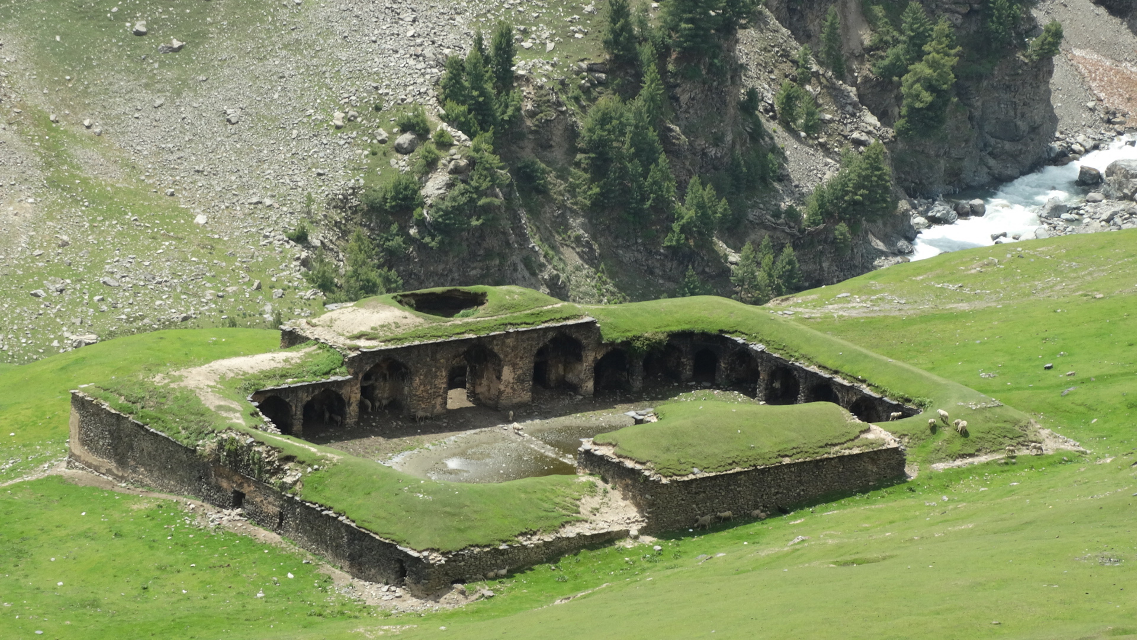 This is an old travellers inn(sarai) situated at Aliabad,on Historical Mughal road.Constructed by mughals during 17th century